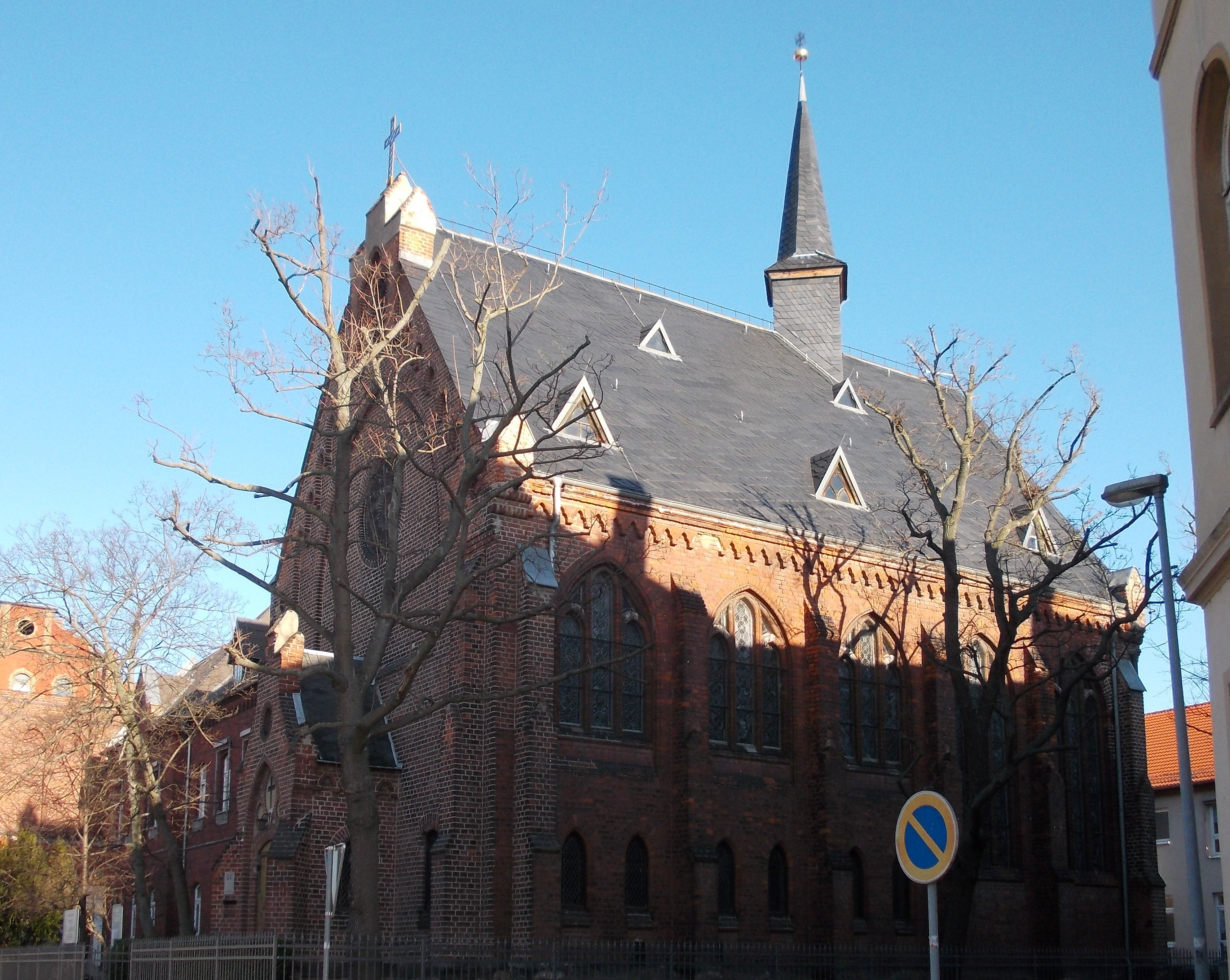 Hospital Church St. Lawrence in Weissenfels (district: Burgenlandkreis, Saxony-Anhalt)